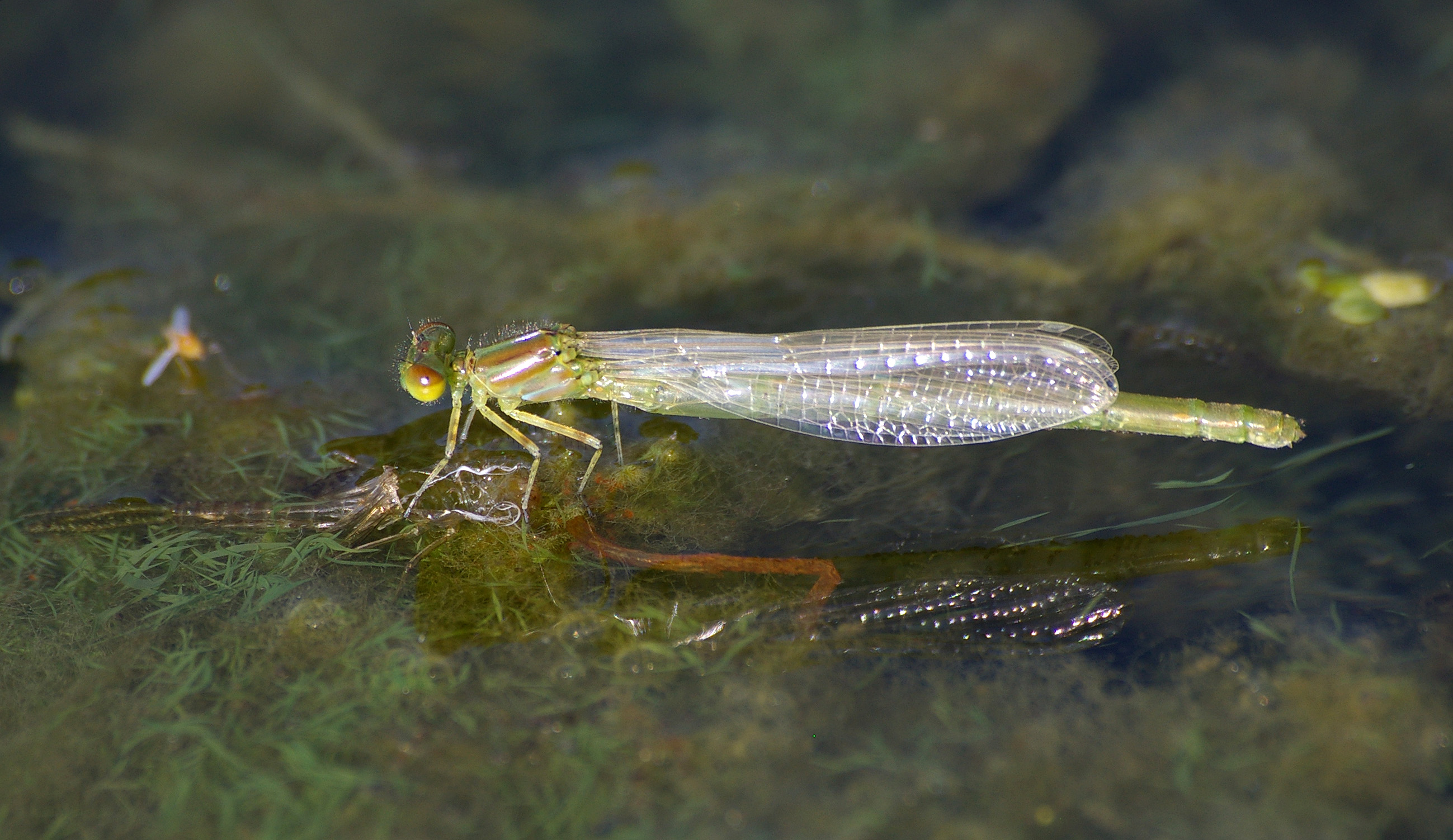 Very young, still colourless female specimen of Erythromma viridulum (Small Red-eyed Damselfly), just after imaginal moulding.